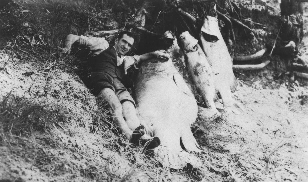 Fish killed by spillage in the Millaquin Distillery fire, Bundaberg, 1936 A man is laying on the Burnett River bank with four large fish which have been killed by spillage from the Millaquin distillery during the 1936 fire. (Description supplied with photograph).